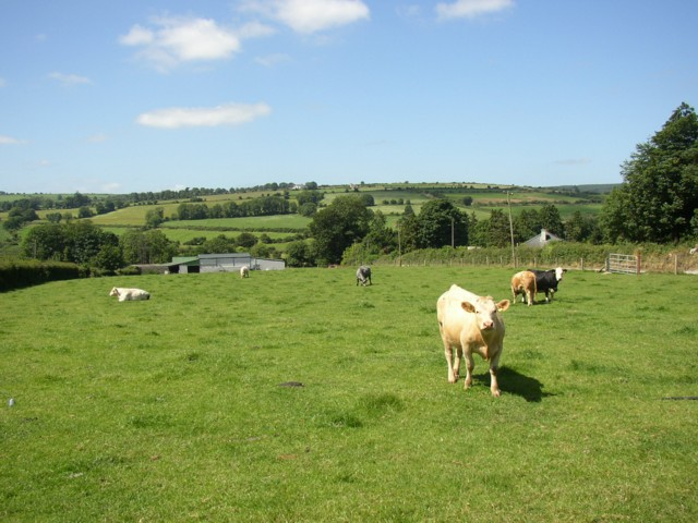 Pasture at Listerlin, Co.Kilkenny. This part of Ireland is mostly pasture, grazed by cattle and sheep.